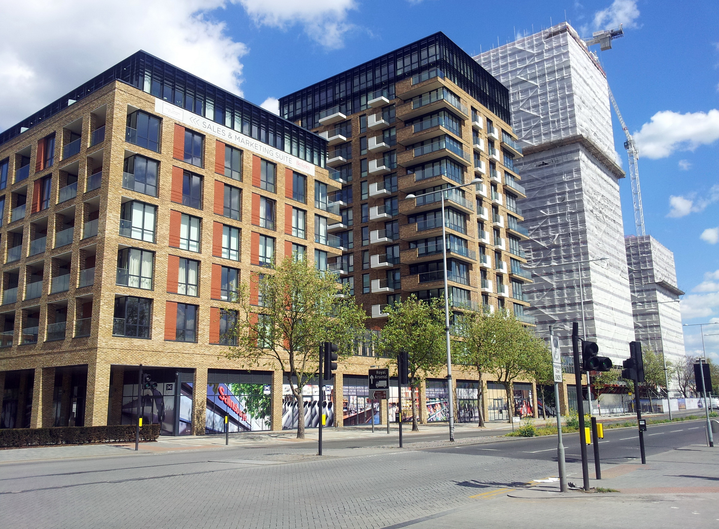 Housing development near the new Crossrail station at Plumstead Road, Woolwich, Southeast London.